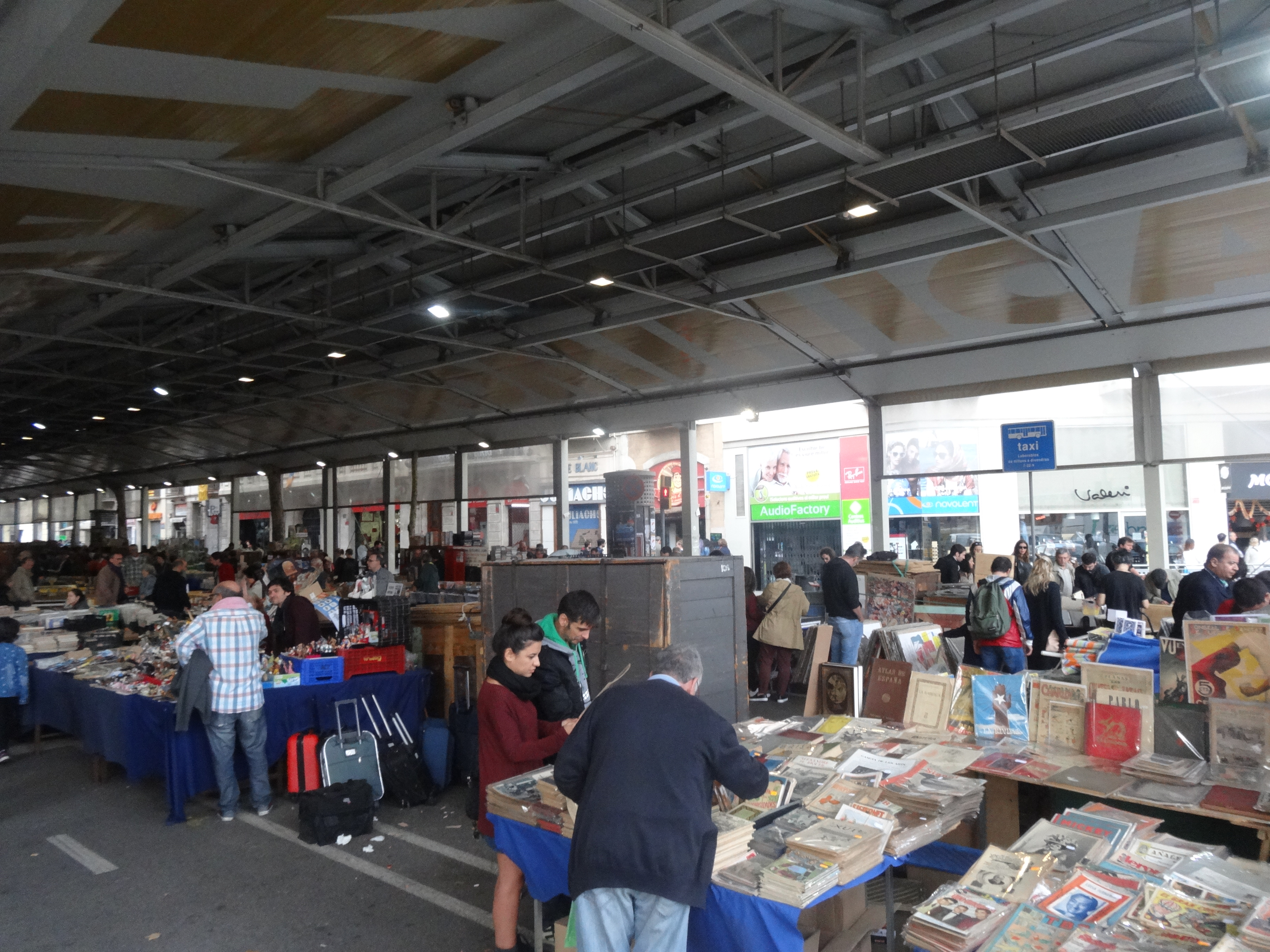 Book market. Mercat de Sant Antoni. October 2015